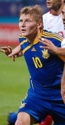 Volodymyr Homenyuk in Ukraine national football team